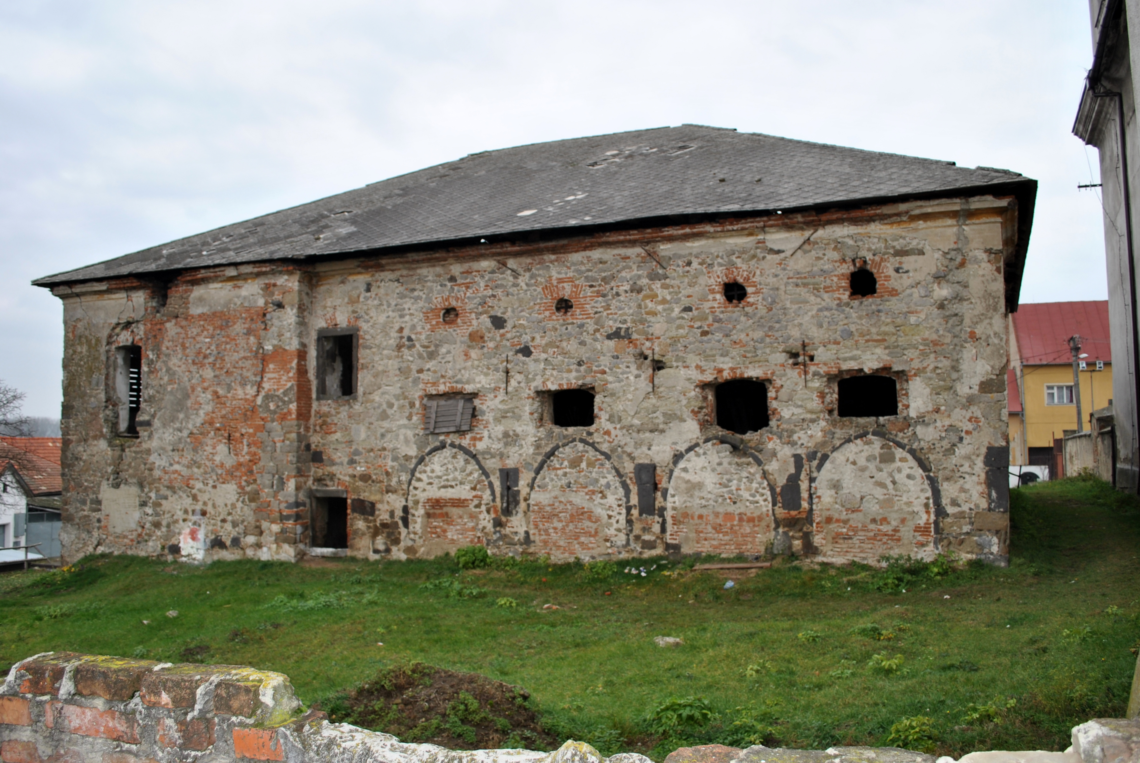 Šahy monastery